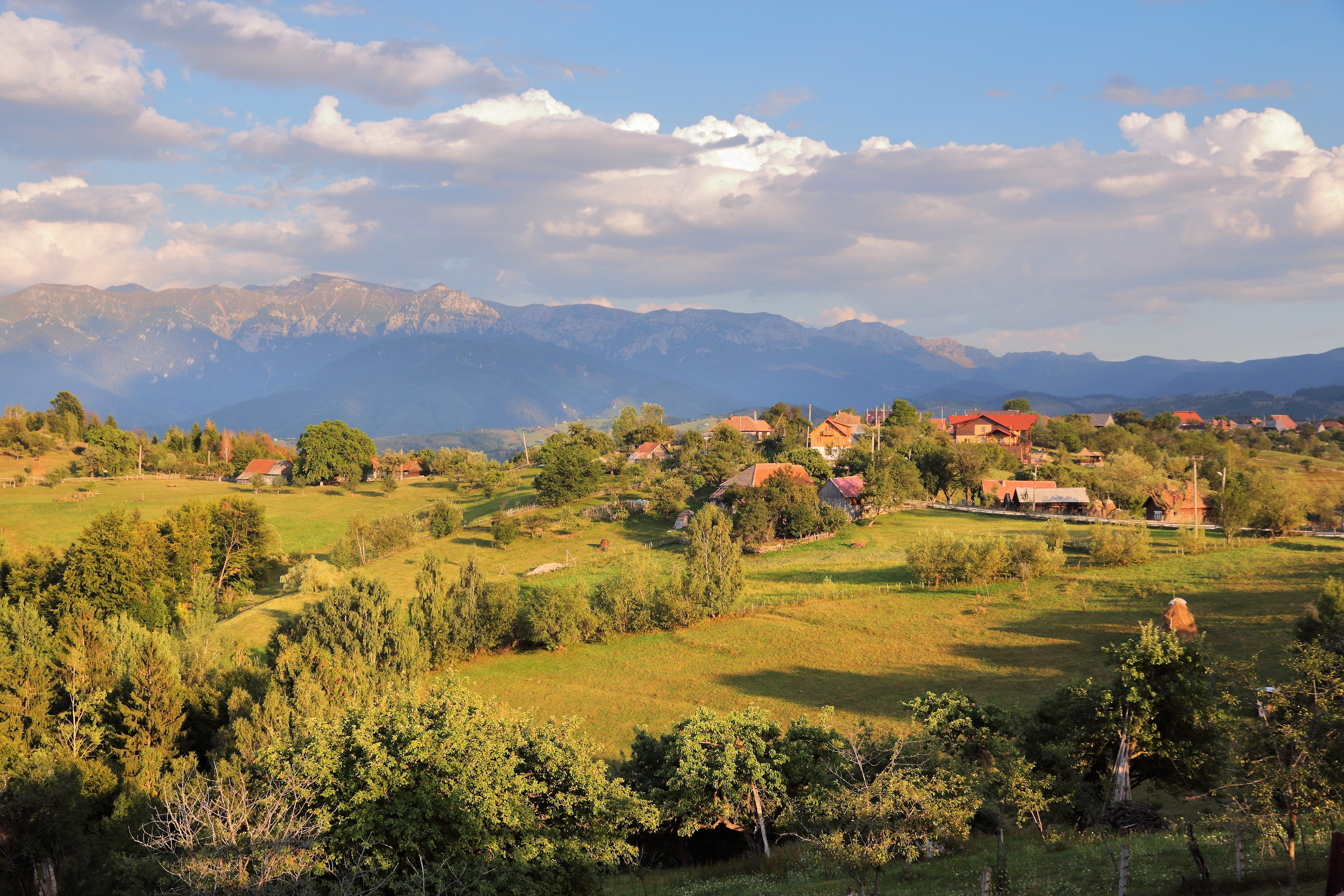 Măgura village in Moieciu commune of Brașov County, Romania. Piatra Craiului mountains.